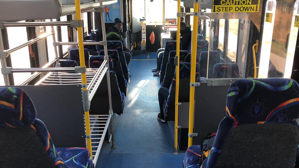 WMATA New Flyer D40LFR 6216 Suburban interior. This bus is branded in the BWI Express Scheme used on the B30 but also used on other regional routes out of Landover division